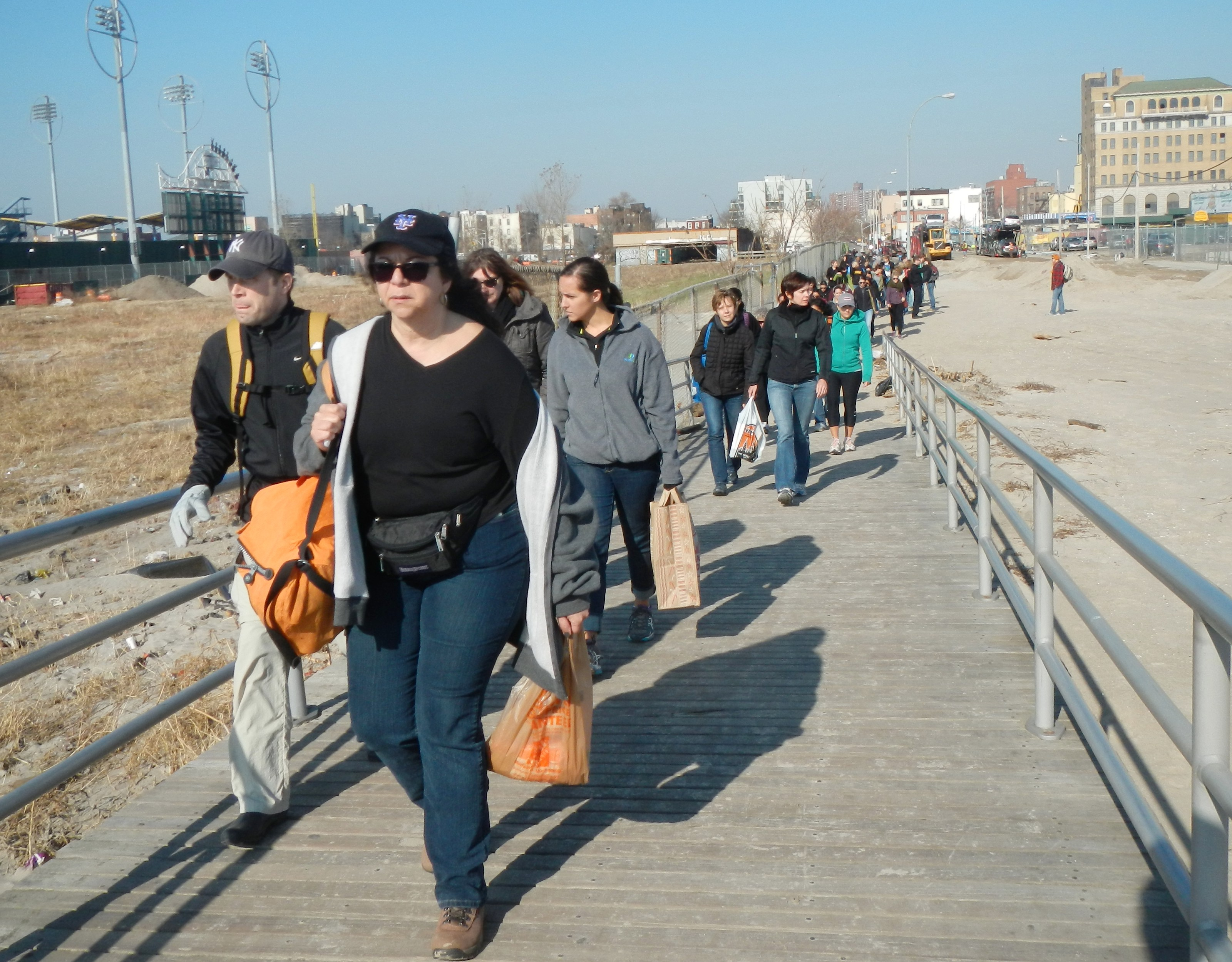 Looking north as volunteers trudge up from Stillwell Ave station to boardwalk.